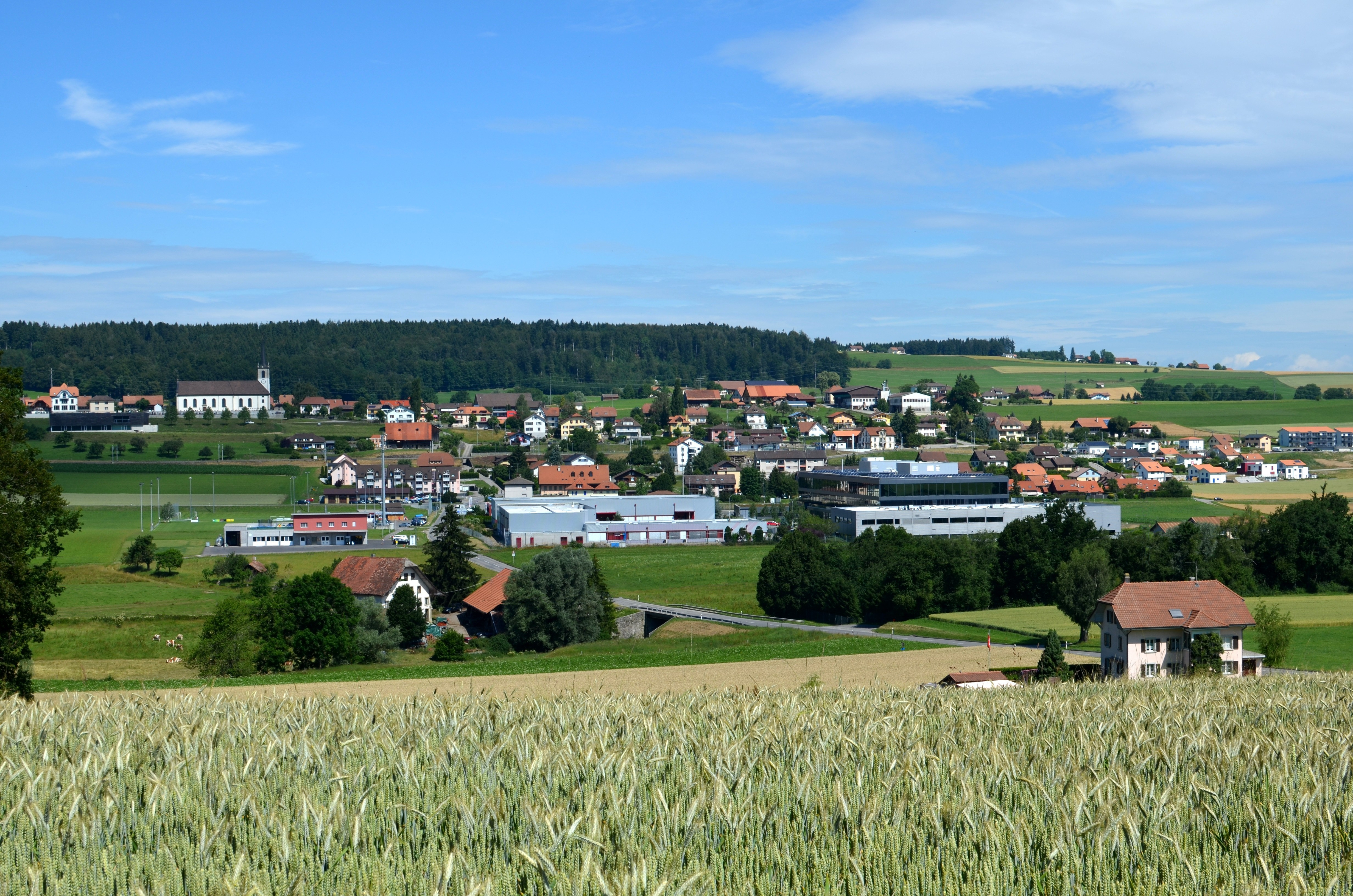 Villaz-Saint Pierre vu de Fuyens - 3 mars 2012